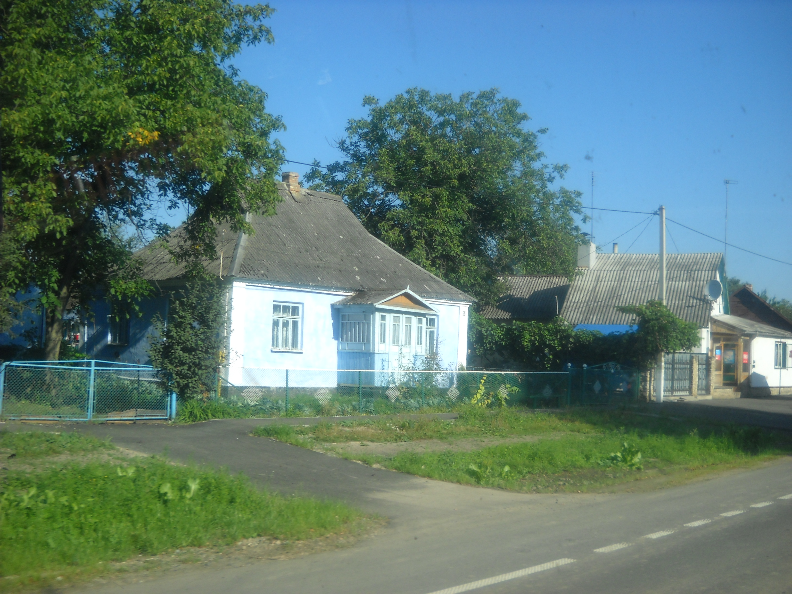 a view in Verba, ukraine